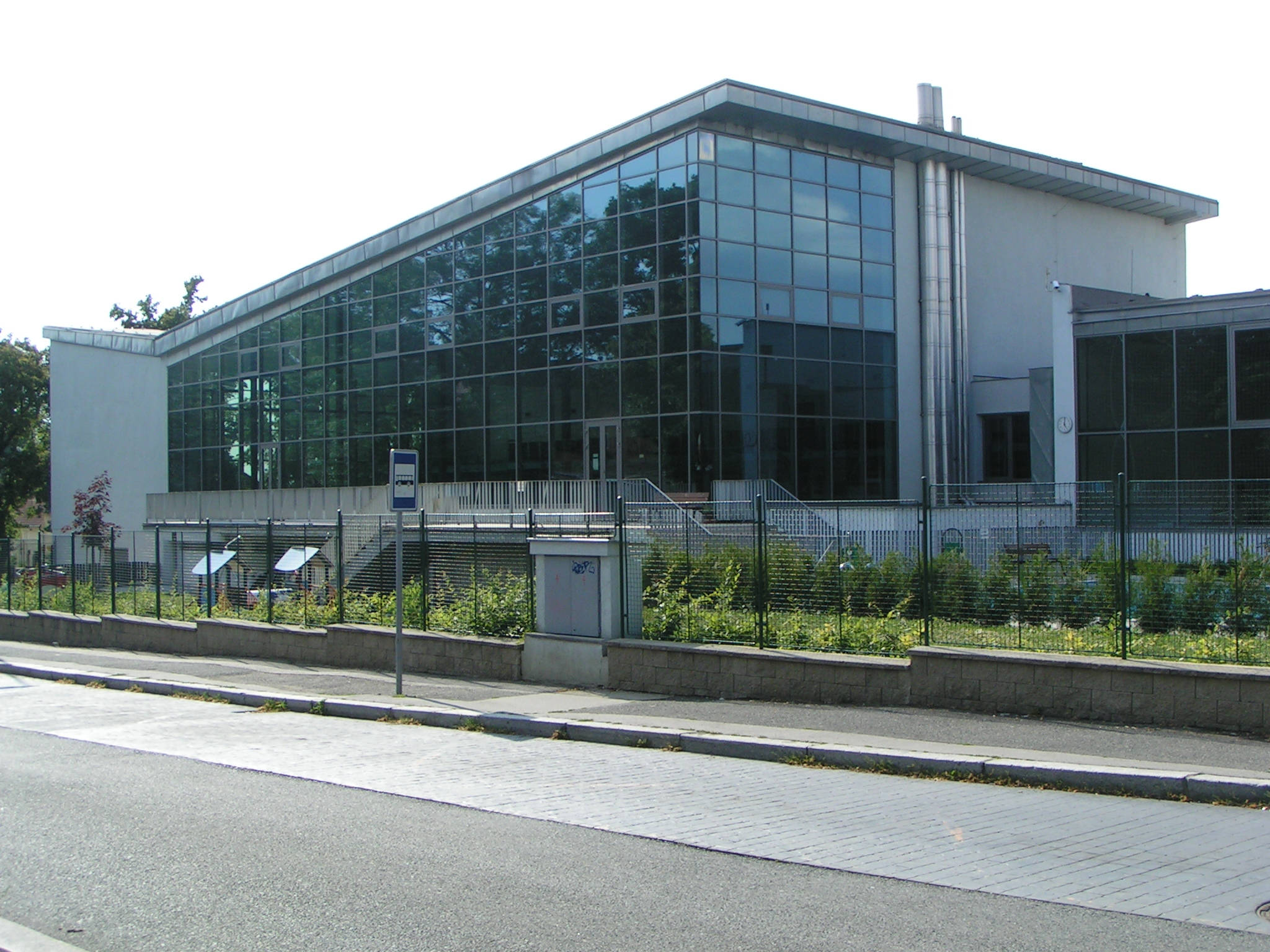 Prague, Hloubětín - Plavecký a sportovní areál Hloubětín, a rear view, and a bus stop Hloubětínská